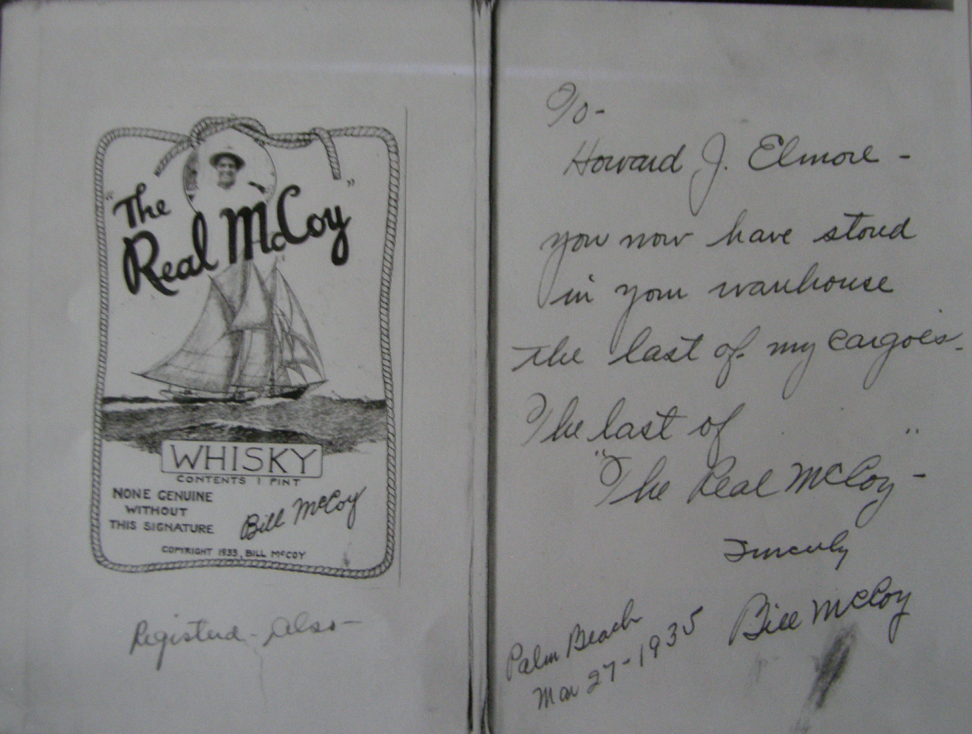 This label (left) is pasted on the inside cover of the book, The Real McCoy, the book, a gift to my grandfather from Bill McCoy.